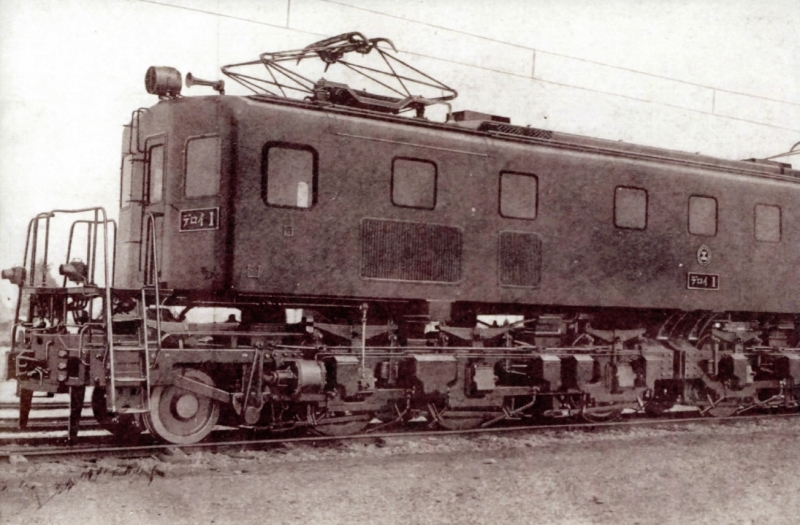 Builder's photo of a Toshiba-built DeRoI-class locomotive of the Chosen Government Railway.